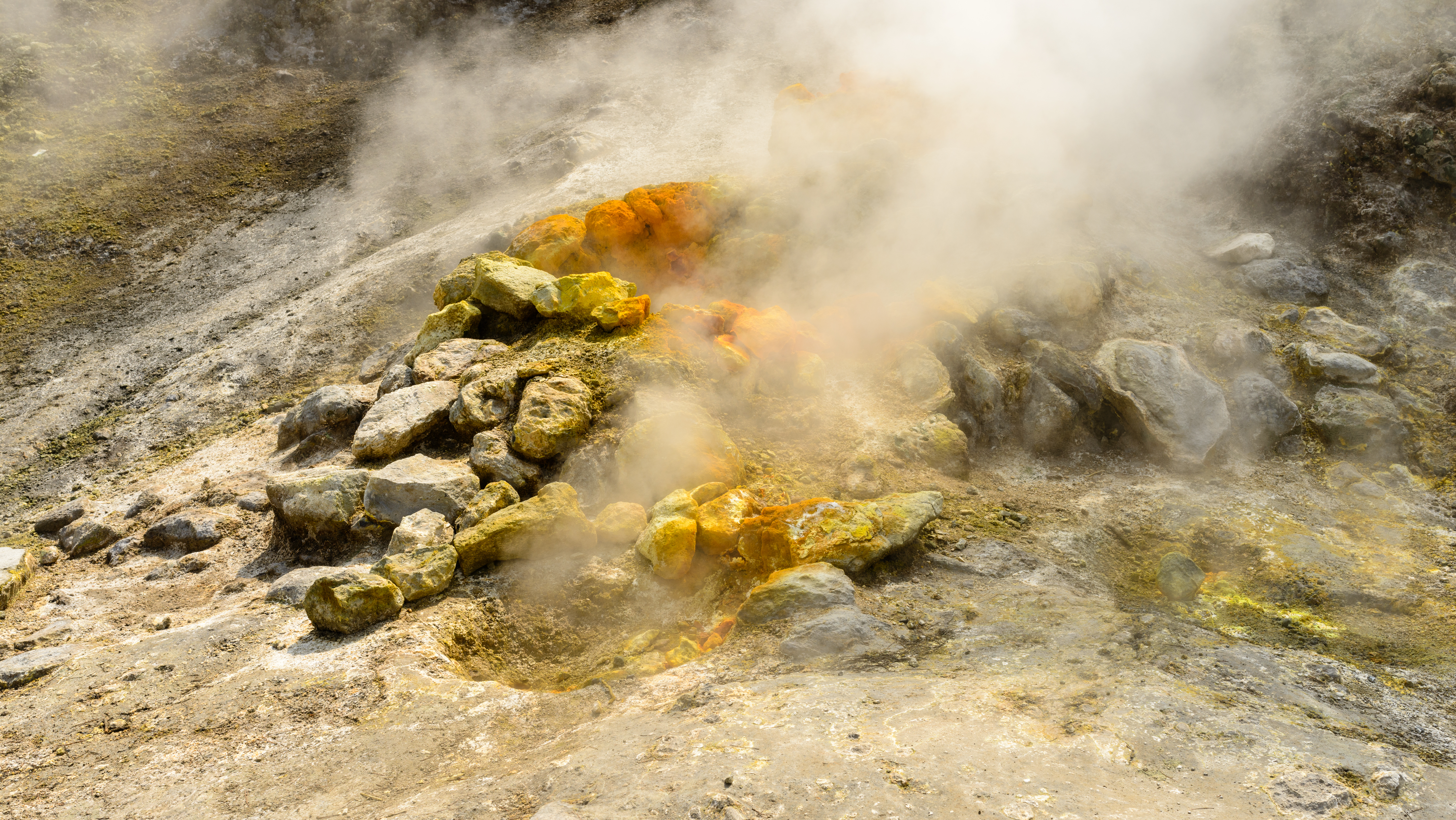 Fumarole, Solfatara (Pozzuoli), Campi Flegrei, Campania, Italy.